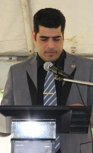 Ministre Education